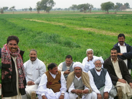 Bull racing committee Jada and Kantrili March 2006